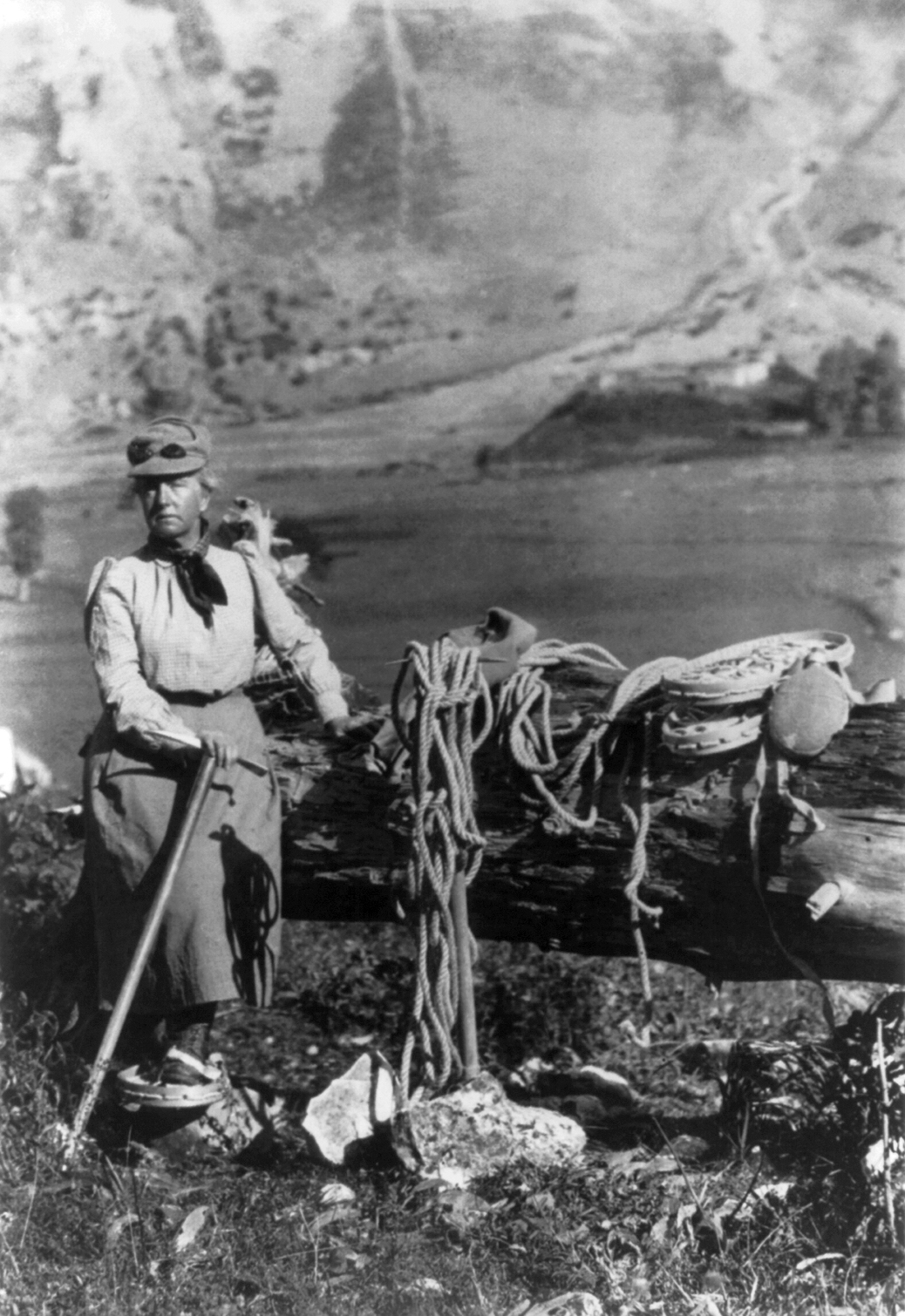 Fanny Bullock Workman, mountain climber, died 1922